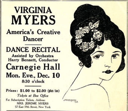 Virginia Myers at 16 - Second Carnegie Hall Concert, 1923